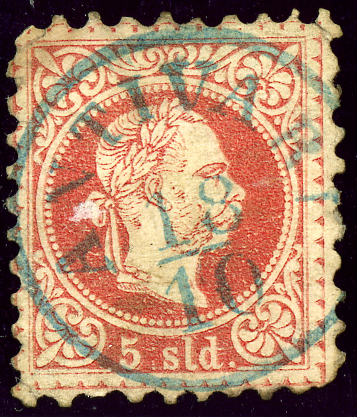 Austrian Levant stamp 5 soldi, 1867 issue, cancelled ANTIVARI (Bar, Montenegro)